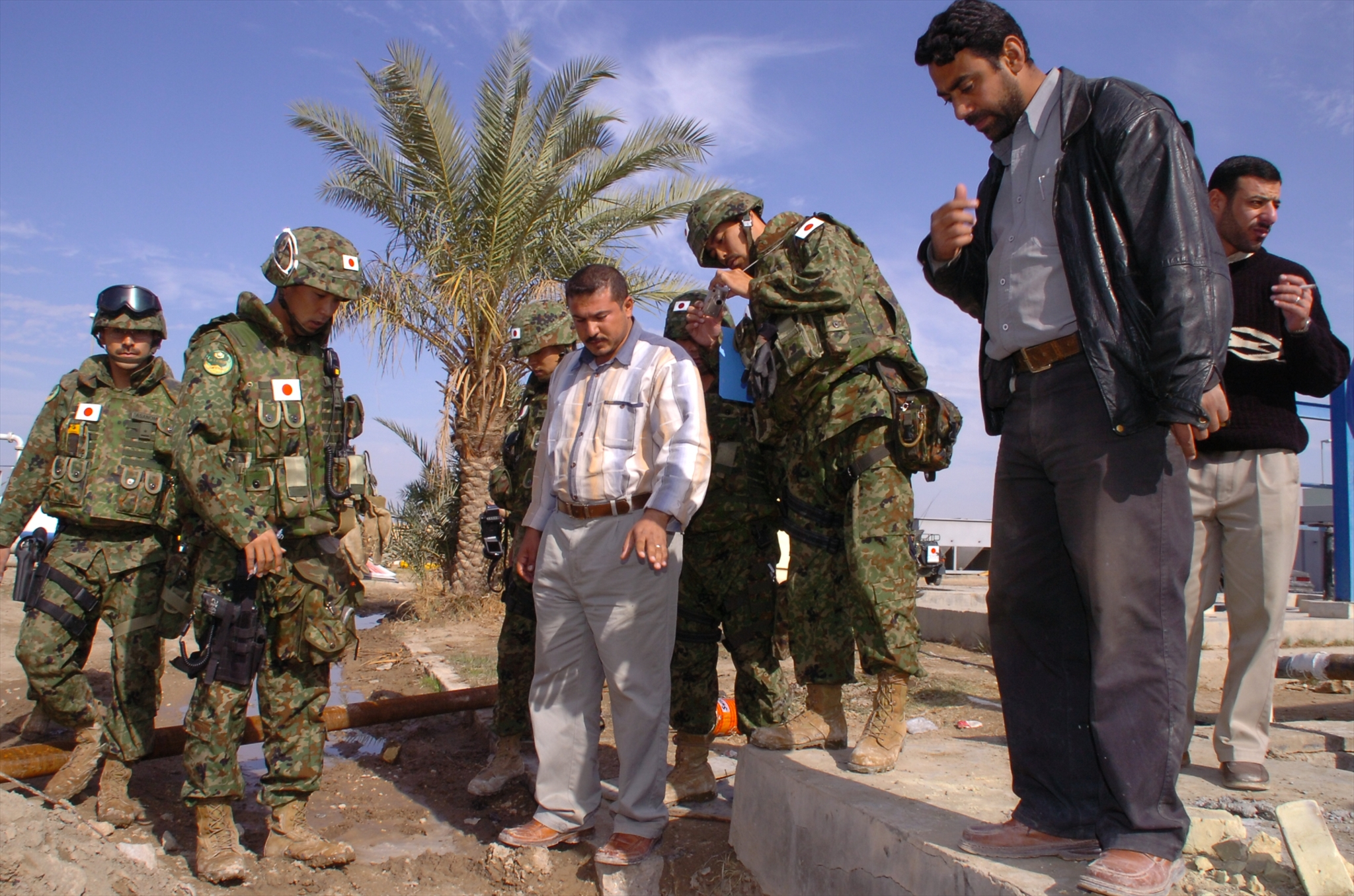 Title 17.11.19 イラク人道復興支援活動・浄水場の施工状況を確認する隊員_R.jpg Album 国際平和協力活動等（及び防衛協力等） イラク人道復興支援特措法に基づく活動